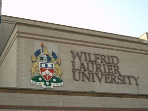 User:DINO2411|DINO2411 , the copyright holder of this work, hereby publishes it under the following license: Attribution: ::User:DINO2411|DINO2411